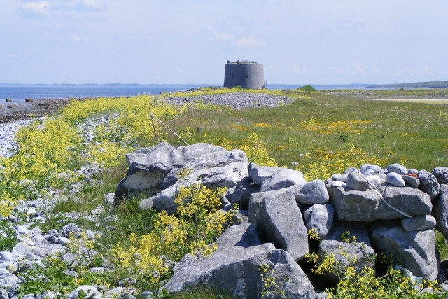 Martello Tower - north shore of Aughinish - Aughinish Townland